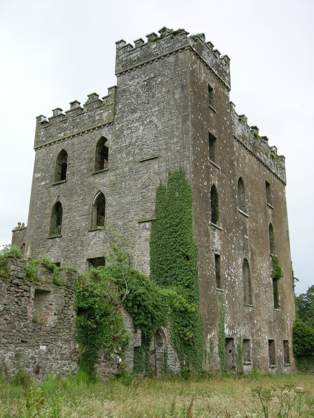 The remains of the Castle Otway near Templederry, County Tipperary, Ireland